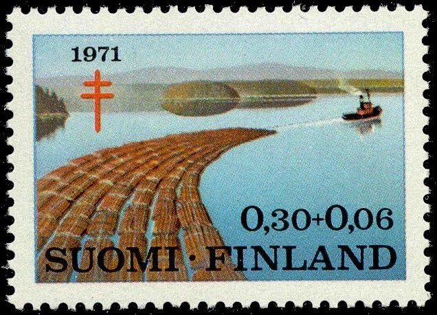 Bundle-floating on a Finnish lake